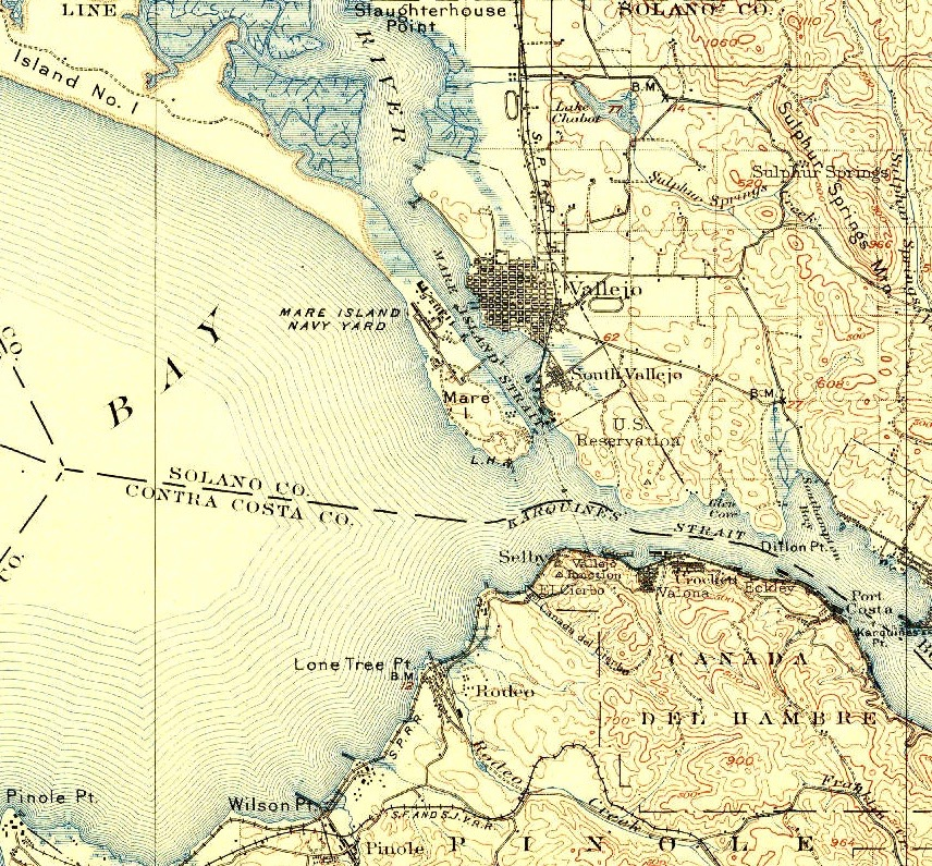 Vallejo region in 1902